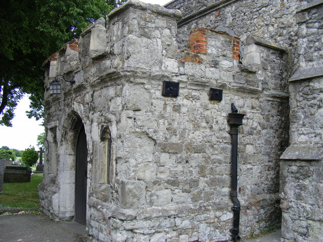 Porch at Hoo St Werburgh Parish Church